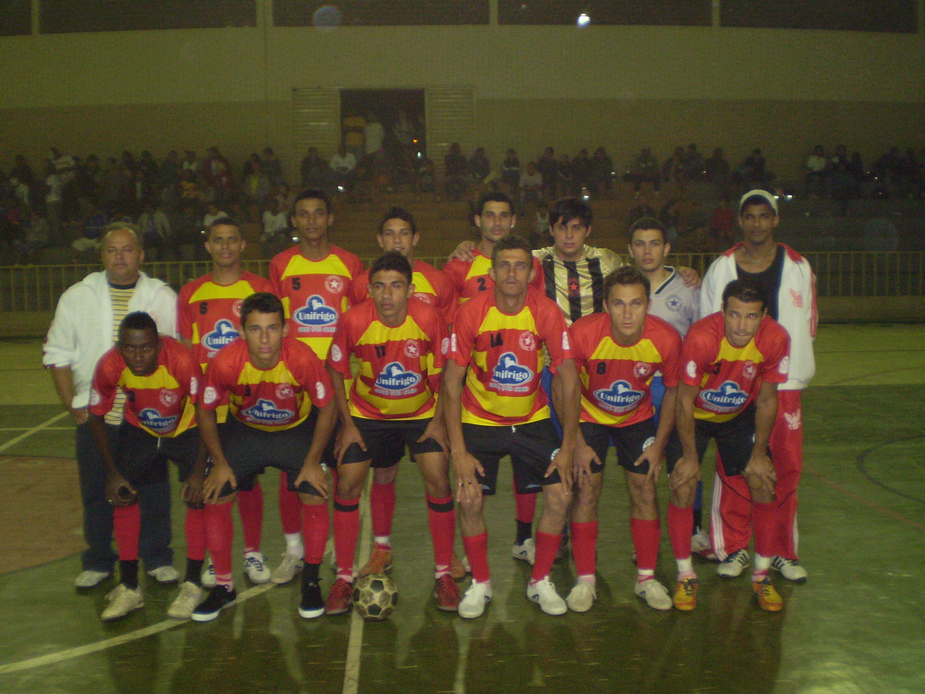 Gallery of rivals of Vilense.